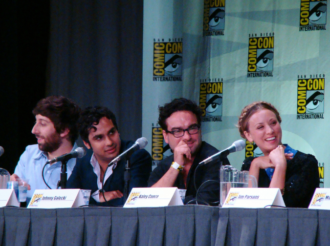 Simon Helberg, Kunal Nayyar, Johnny Galecki and Kaley Cuoco at San Diego Comic-Con